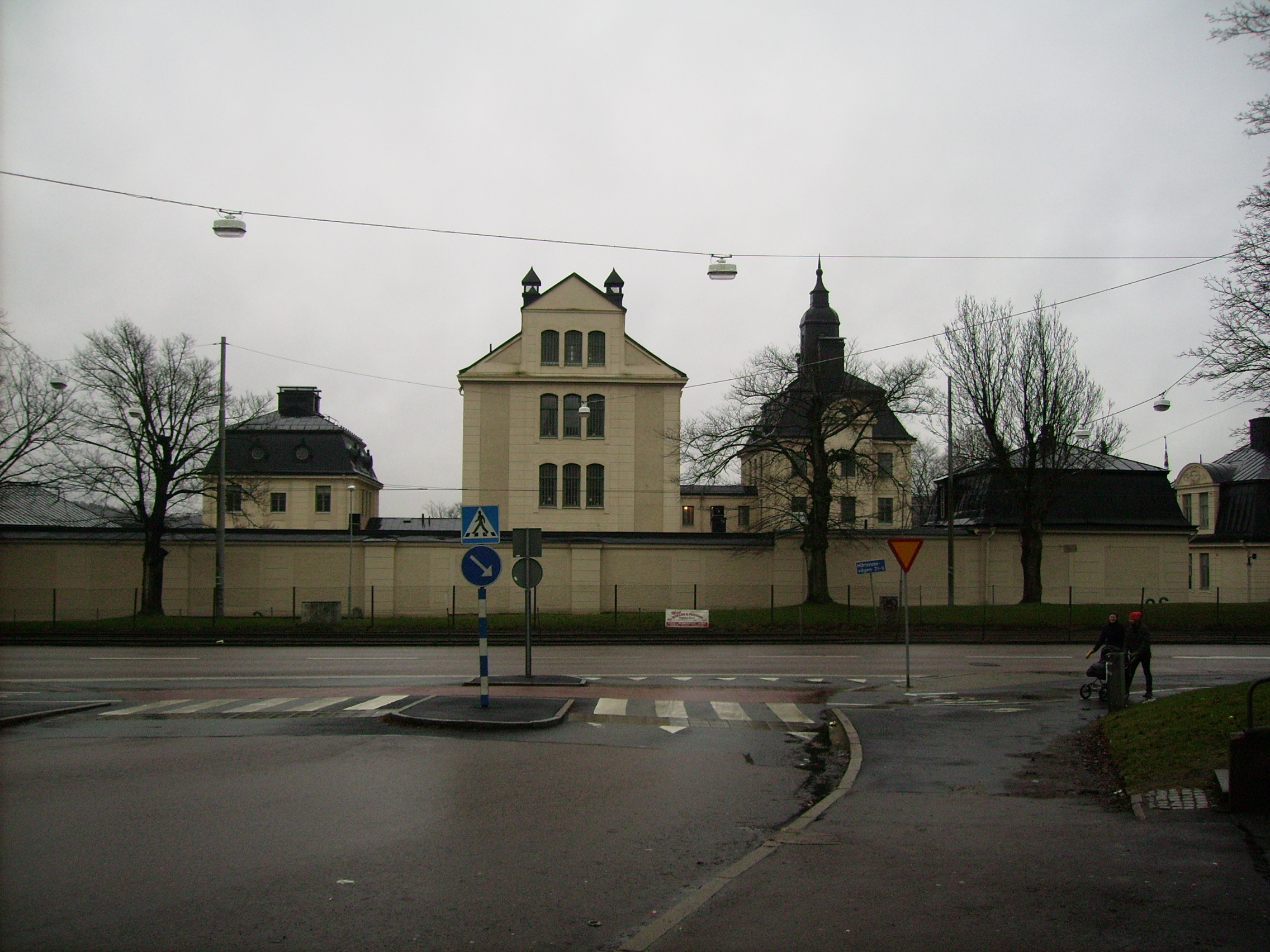 Picture of Härlanda jail in Gothenburg 2009.